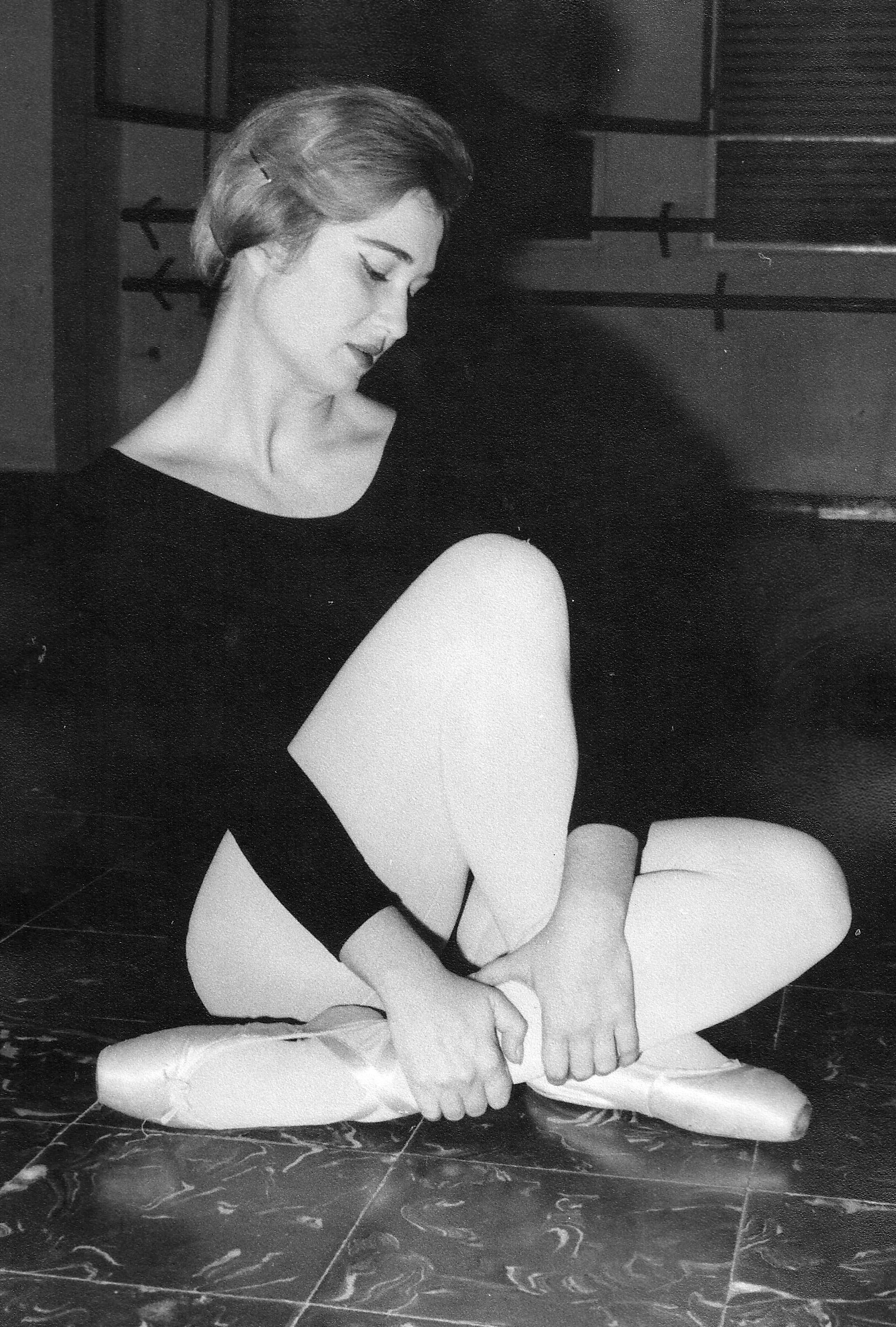 Micaela Torres Palop young picture